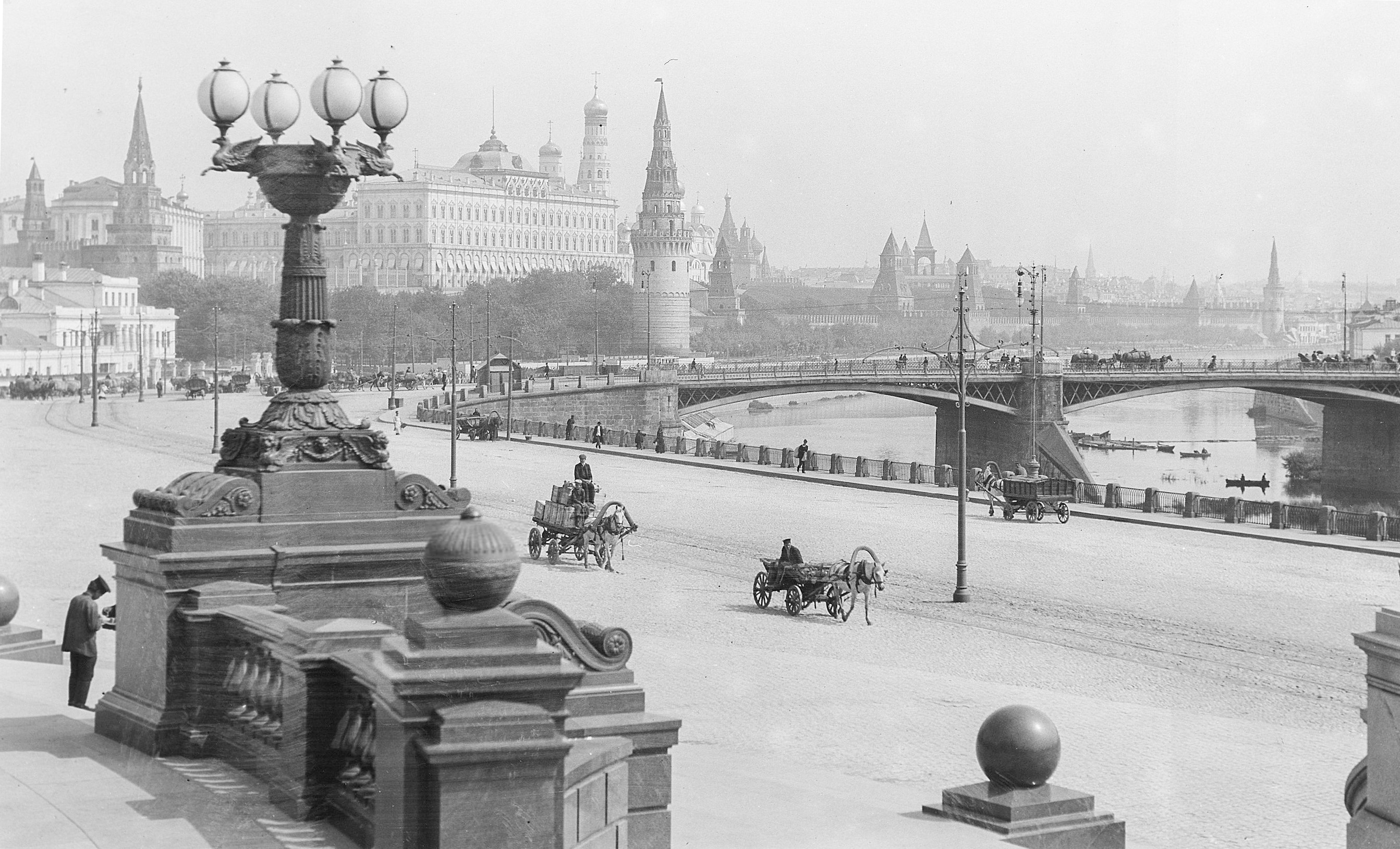 Prechistenskaya Embankment in Moscow.